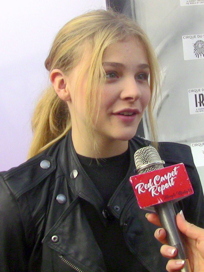 Chloë Grace Moretz at the World Premiere of IRIS by Cirque du Soleil 2011.